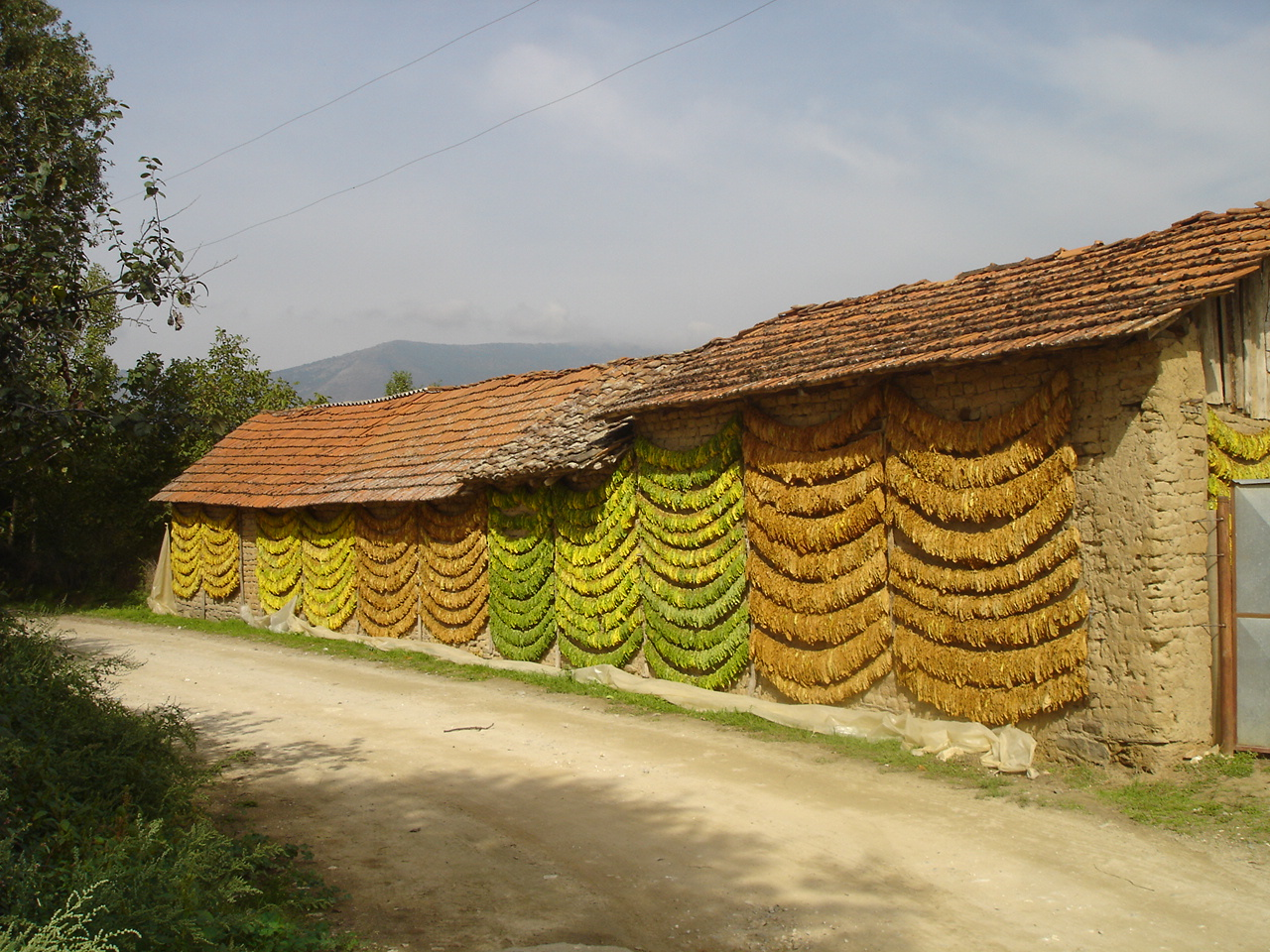 Drying tobacco in the village of Kostinci, near Prilep, Macedonia